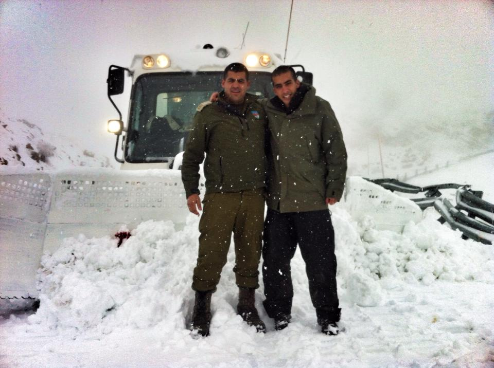 kjhvdvkbd